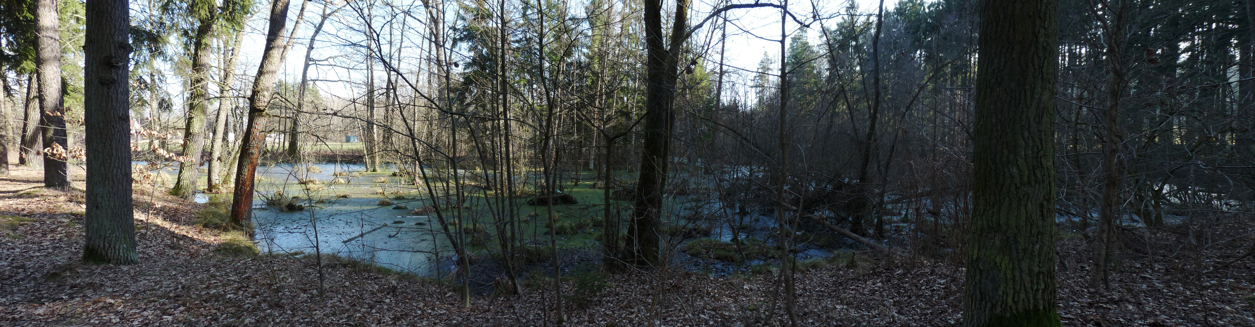 Wetland in Branišovský les (Branišov Forest), České Budějovice District, South Bohemian Region, Czech Republic.